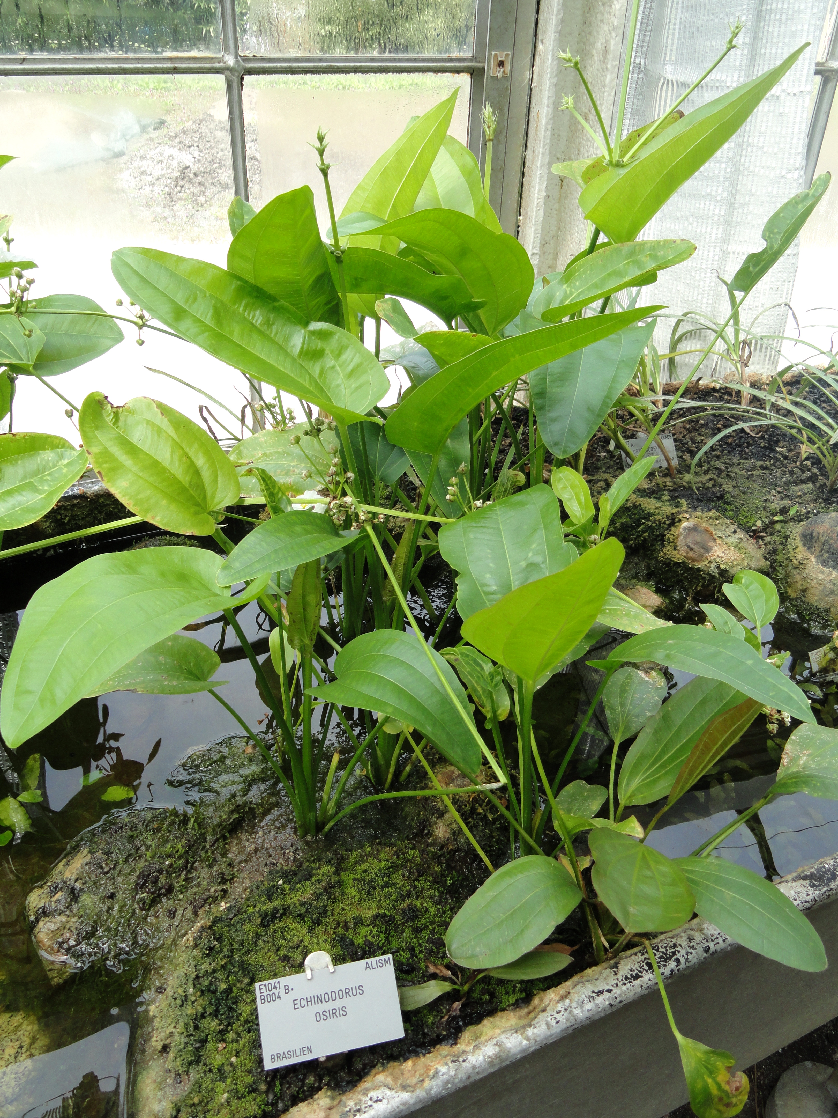 Botanical specimen in the University of Copenhagen Botanical Garden, Copenhagen, Denmark.